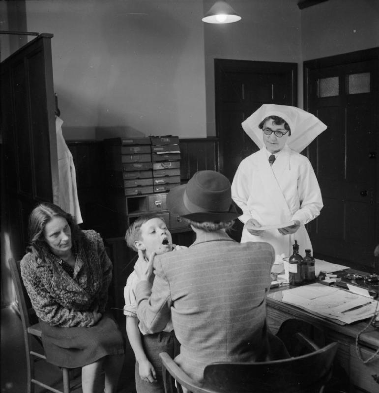 A Picture of a Southern Town- Life in Wartime Reading, Berkshire, England, UK, 1945 At a school Clinic, somewhere in Reading, a female doctor examines the throat of a small boy, as his mother and the school nurse look on.